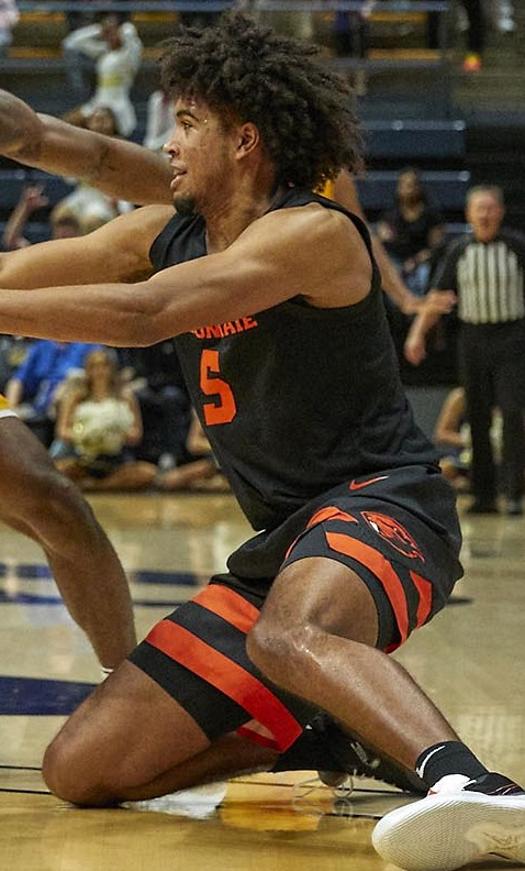 University of California Golden Bears hosted Oregon State University Beavers, Pac-12, Mens Basketball, Haas Pavilion, Berkeley, CA